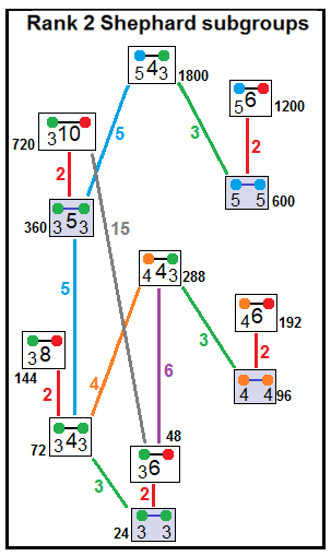 Subgroup chart for complex reflection Shephard groups of rank 2